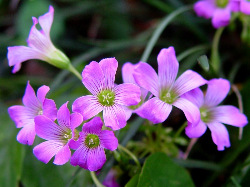 Description Oxalis rubra, Hairywood Sorrel. Date June 08, 2002 Location Gardens of the Imperial Palace, Tokyo - Japan Photographer Franco Folini